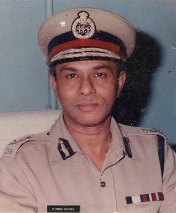 Abdul Sathar Kunju in the 1980s